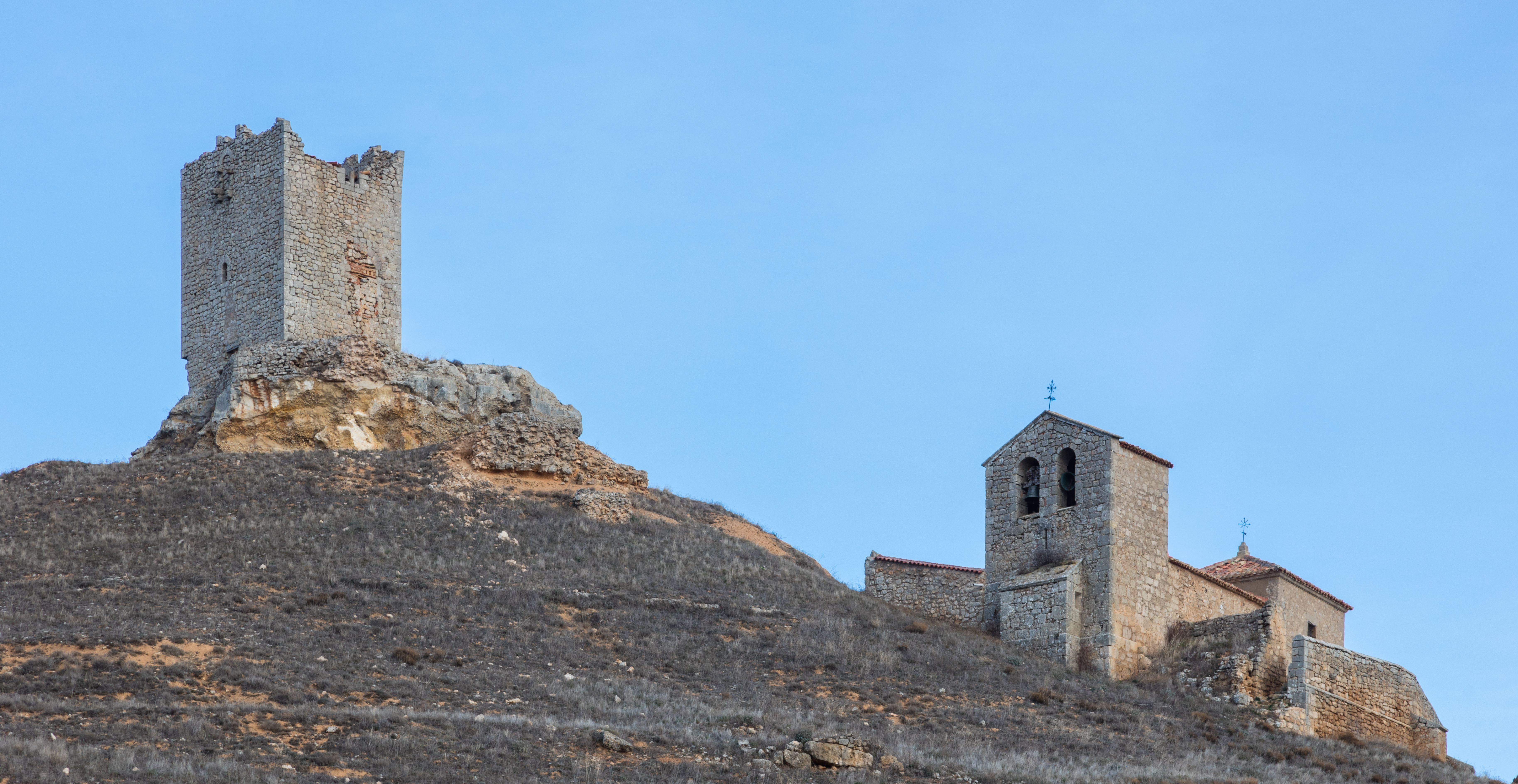 Moñúx Tower, Moñúx, Soria, Spain